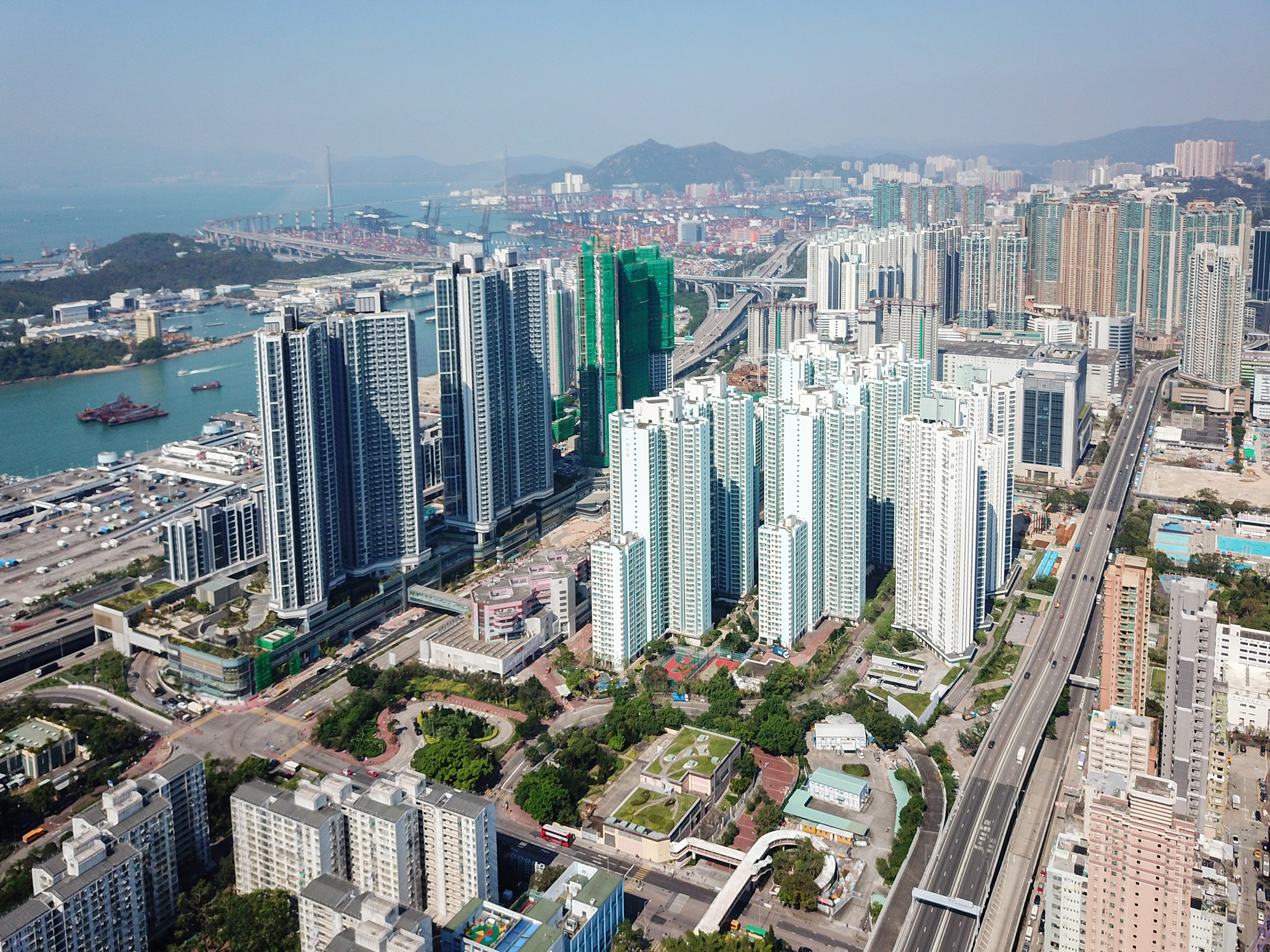 West Kowloon Highway near Cheung Sha Wan